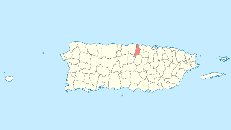 Municipal locator of Puerto Rico